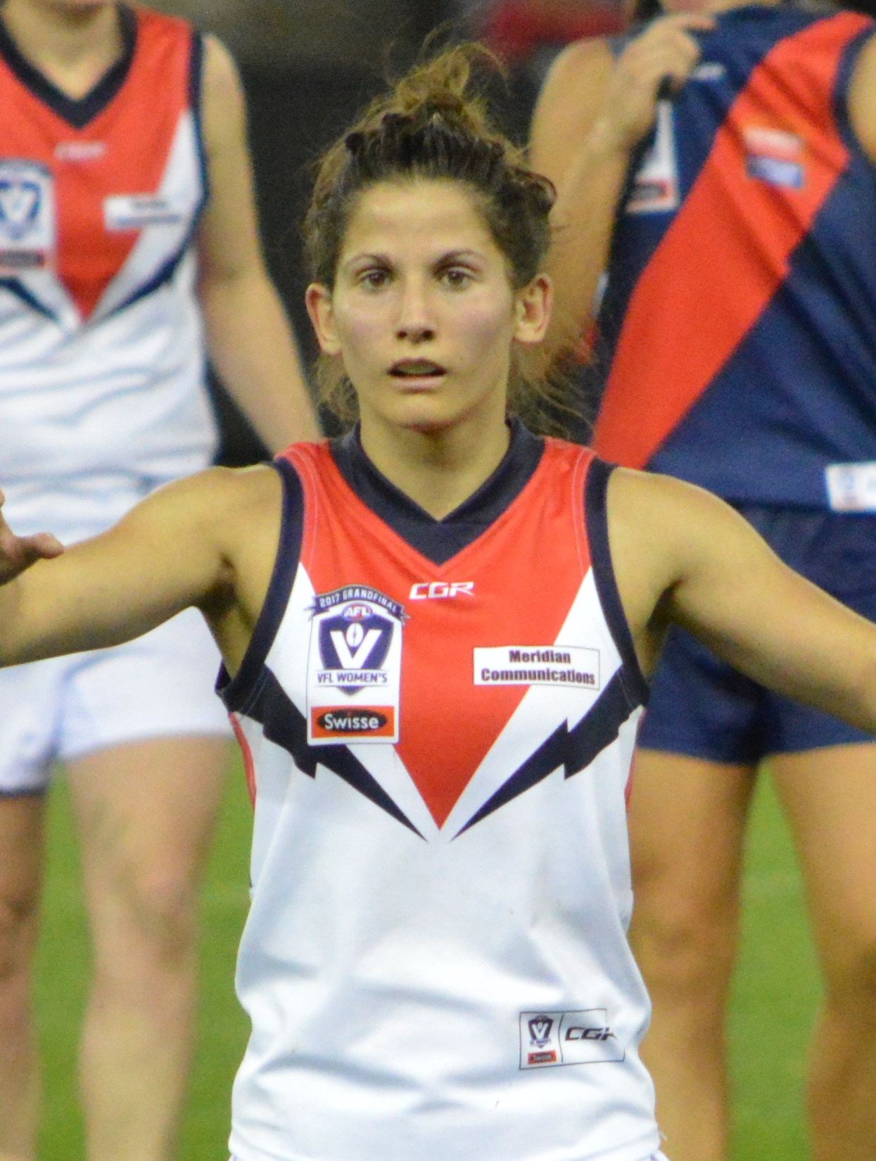 Jessic Dal Pos during the 2017 VFL Women's Grand Final.